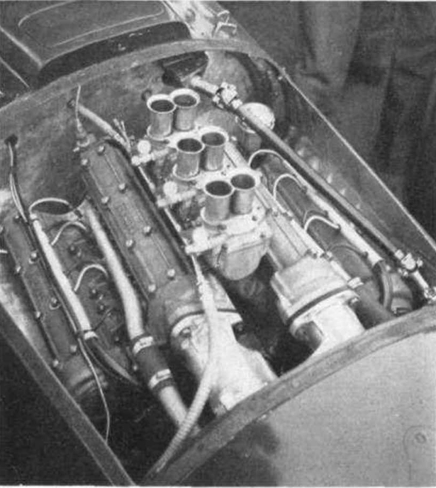 Engine of the 1957 Dino 156 F1 s/n 0011 taken while at the 1957 GP Napoli on 28 April 1957